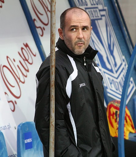 Michał Probierz, Jagiellonia Białystok's coach.